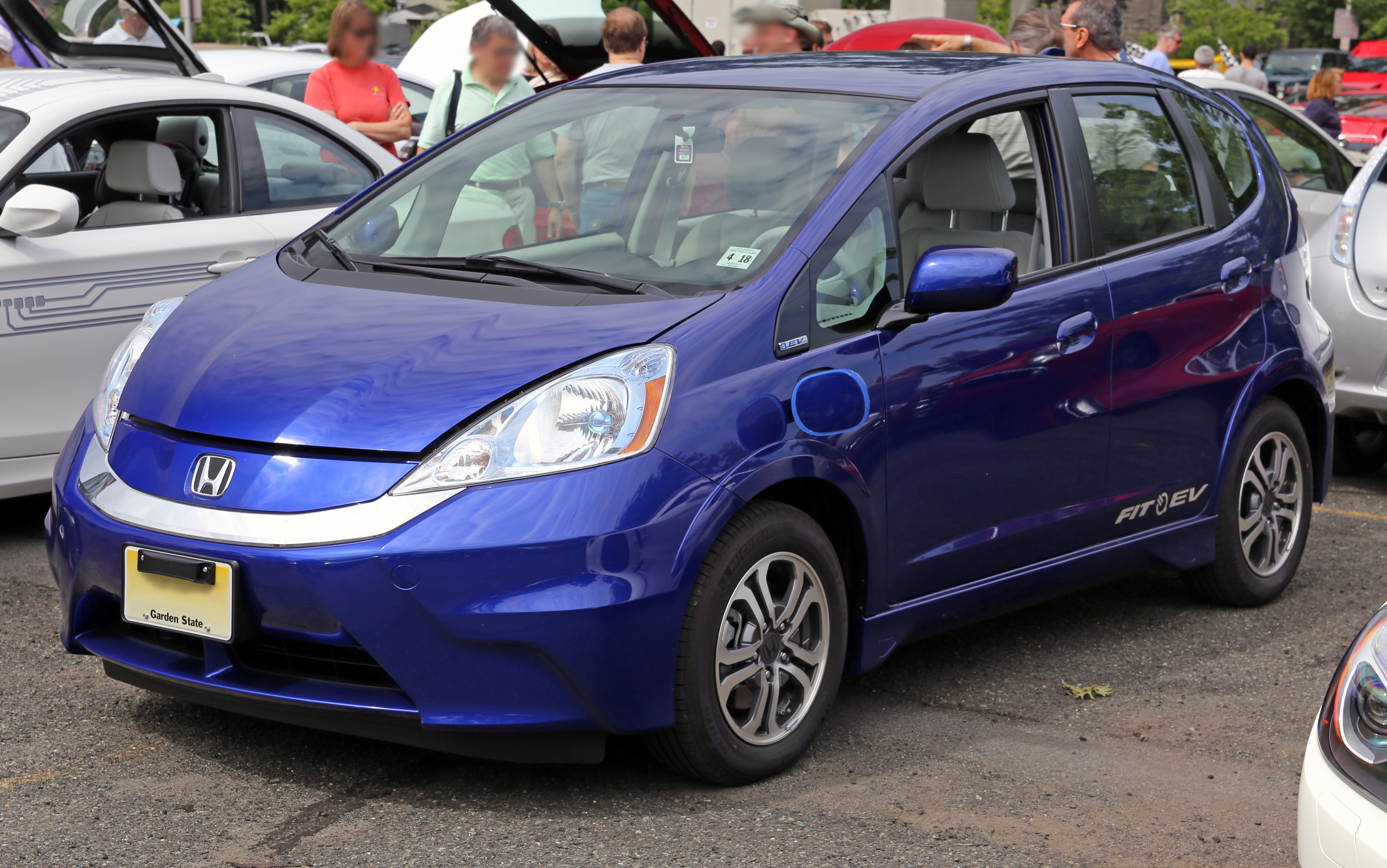 Honda Fit EV